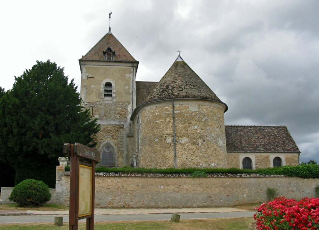 Church of Thoiry (Yvelines, France)